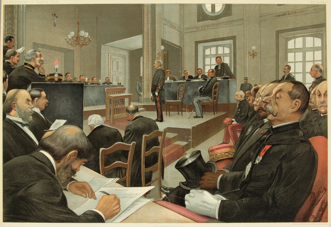 Winter supplement; double print: Caricature of The trial of Dreyfus. Col Jouaust, Capt Dreyfus, MM Labori and Demange, Gens Billot, Mercier, Zurlinden, Roget, Gonse and Boisdeffre, Col Picquart, MM Hanotaux and Cavaignac, and others. Caption reads: "At Rennes"